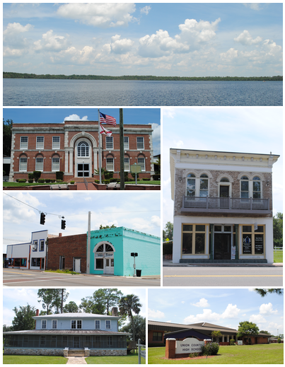 Photos I took around Lake Butler, Florida